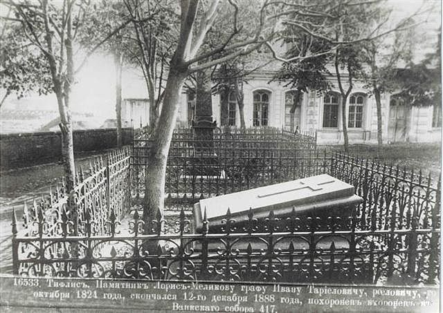 Vanqi Church, old Tbilisi